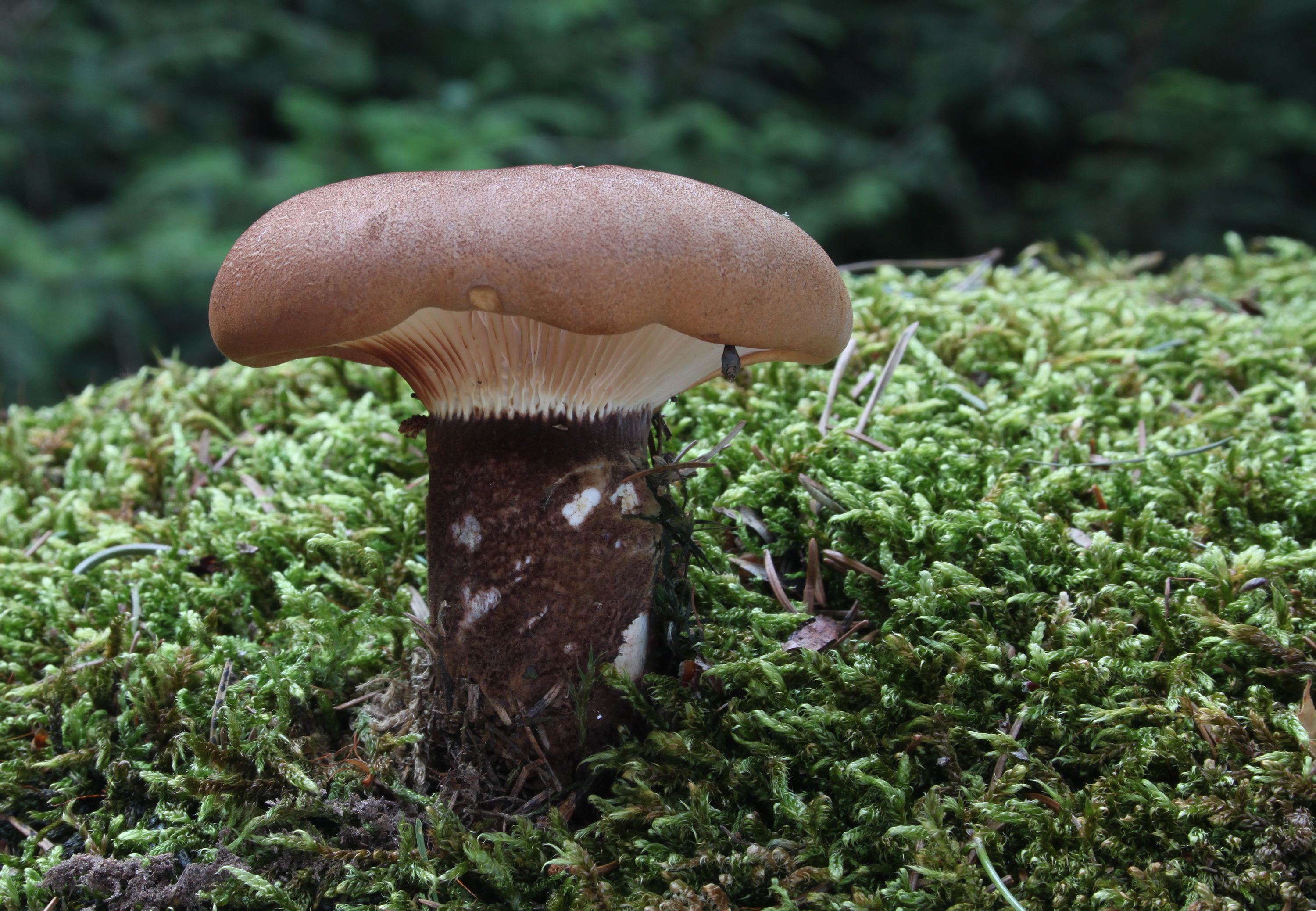 Velvet Roll-Rim or Velvet-Footed Pax, Tapinella atrotomentosa, Family: Tapinellaceae, Location: Germany, Ulm, Ringingen